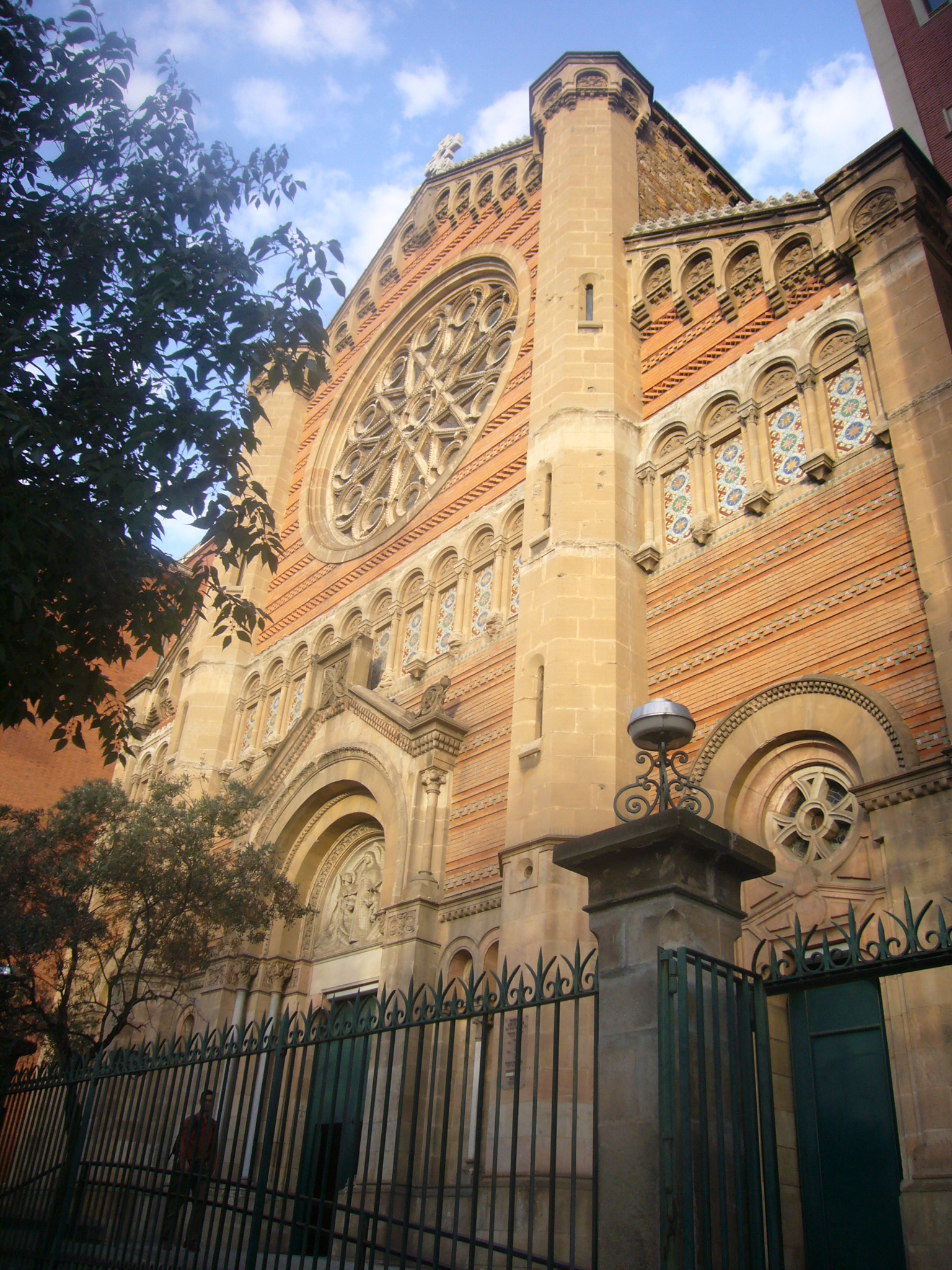 Church "Immaculat Cor de Maria" (claretians), located in Barcelona, at the street Sant Antoni Maria Claret, 45-49. Was built in 1904, and suffered a fire in 1936